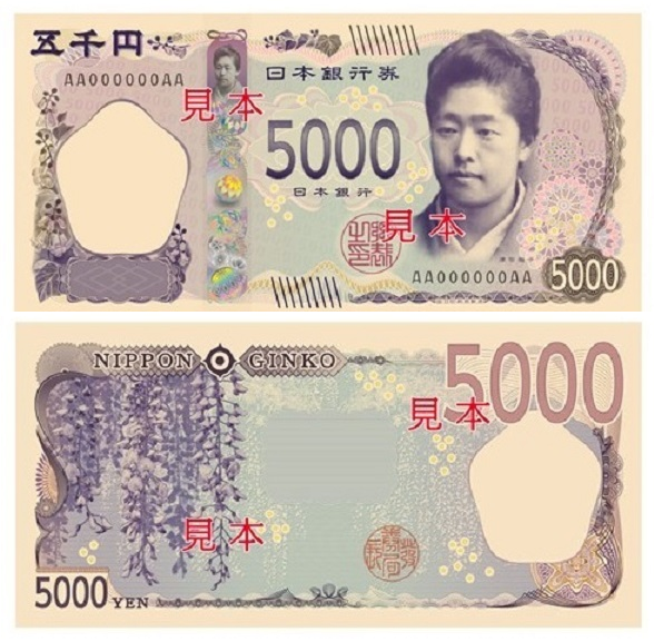 The Japanese Ministry of Finance has announced that a new version of the yen banknotes and 500 yen coins [1] are due to go on circulating for banknotes in 2024 and coins in 2021, replacing the current version except for the 2,000-yen banknote. The redesigned yen bill boasts icons of science and ukiyo-e artworks. More detailed watermarks and hologram have been introduced to improve anti-counterfeiting measures.